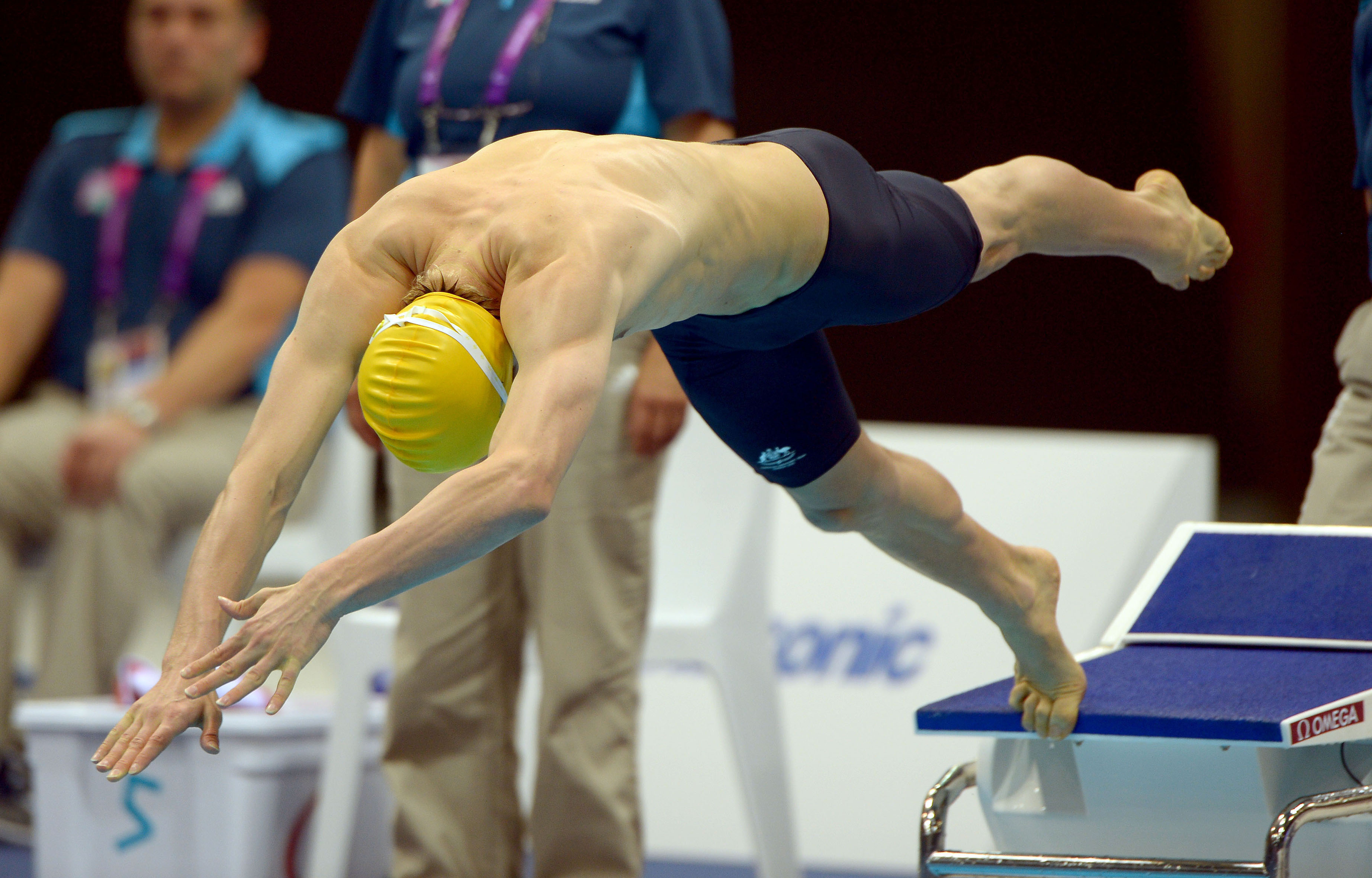 Photograph of Australian Paralympic team member Sean Russo at the 2012 Summer Paralympic Games in London